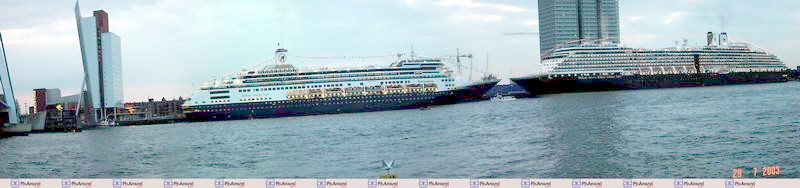 The Holland America Line ships Rotterdam and Oosterdam in 2003. The two ships were on hand for the Oosterdam christening ceremony two days later.